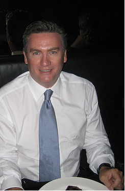 Australian media personality Eddie McGuire. Image has been cropped.